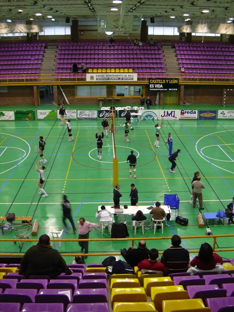 Warm-up before volleyball in San Antonio pavilion, Ávila (Spain)